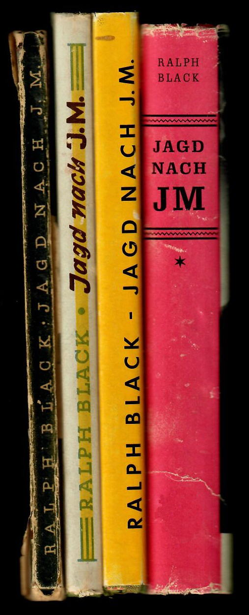 Spine of all 4 published editions of the novel "Hunt for J.M." from Ralph Black. 1st-3rd v.li .: Hunia-Verlag, Berlin-Schmargendorf 1948, 200S .: 1) paperback, 2) hardcover, dust jacket with color graphics, 3) hardcover, dust jacket with photo; 4. v. left: Karl Mayer Verlag, Stuttgart 1950, 294S.